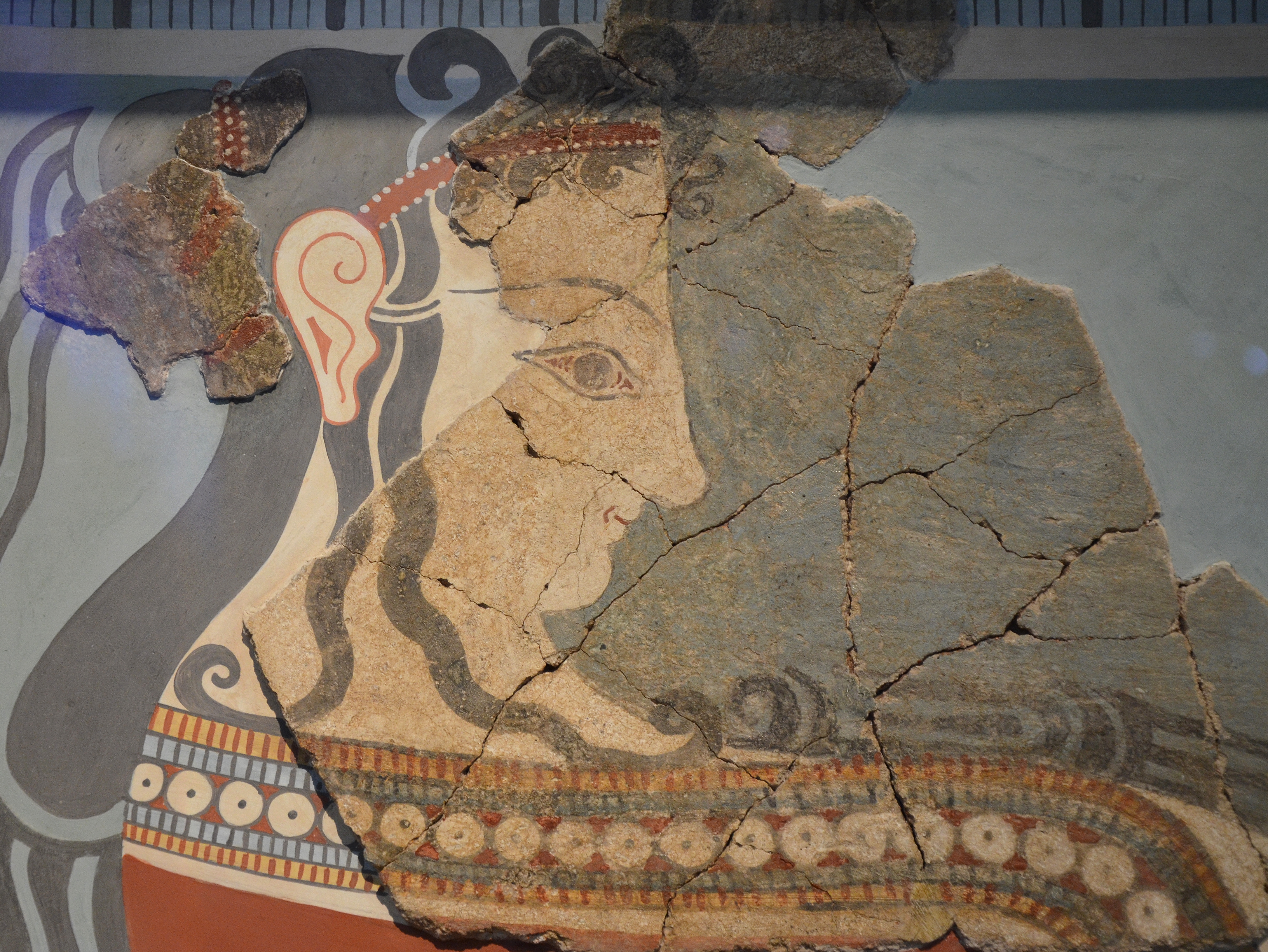 Tiryns wall-painting fragments with a representation of a procession of women bearing offerings, from the later Tiryns palace, 14-13th century BC, National Archaeological Museum of Athens